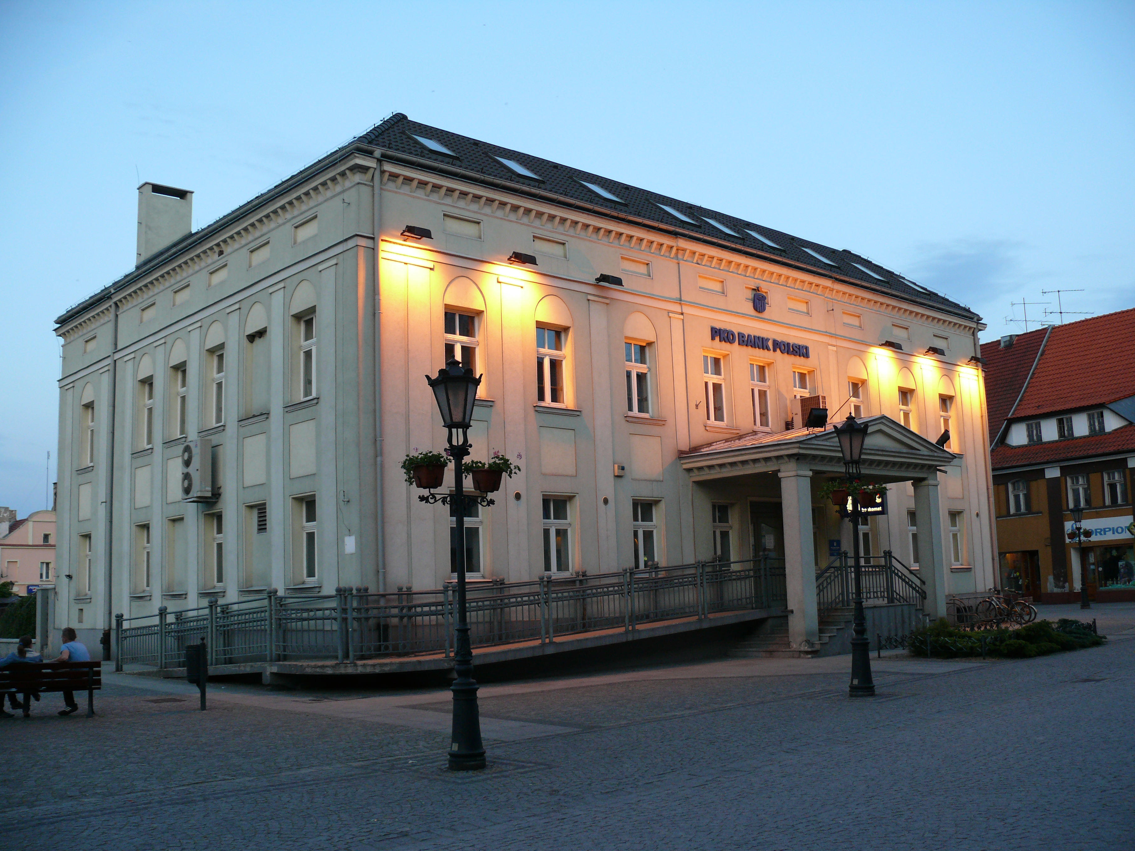 Milicz (Poland). Building of bank PKO BP.